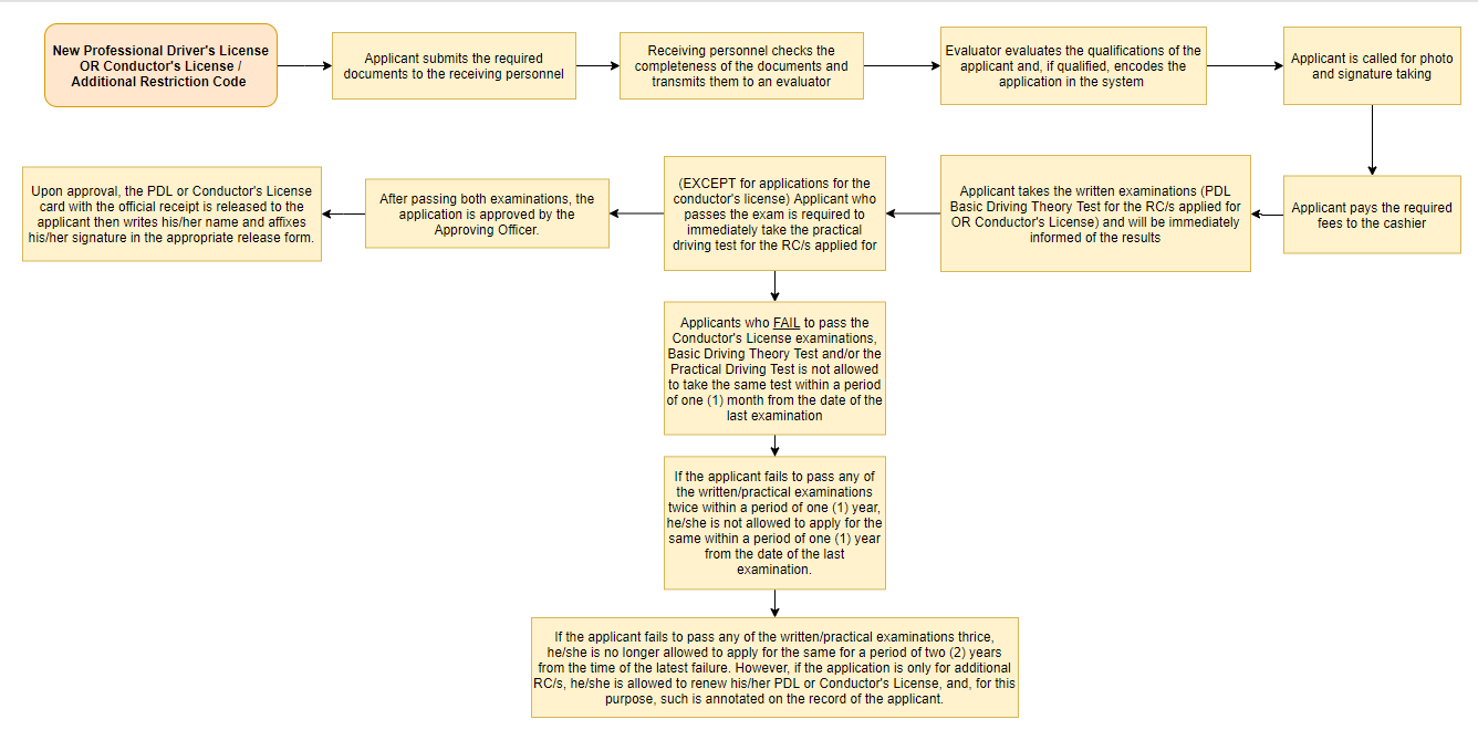 A chart that shows the full procedure in applying for a professional driver's license, conductor's license, and additional restriction codes in the Philippines, under the Land Transportation Office. Information found on the chart could be found on the LTO website.